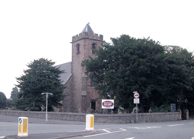 St Mary's Church Broughton In the rectorial benefice of Hawarden. Due to the height of the church tower and the church's close proximity to the nearby Hawarden airport, the tower carries a red warning beacon light.